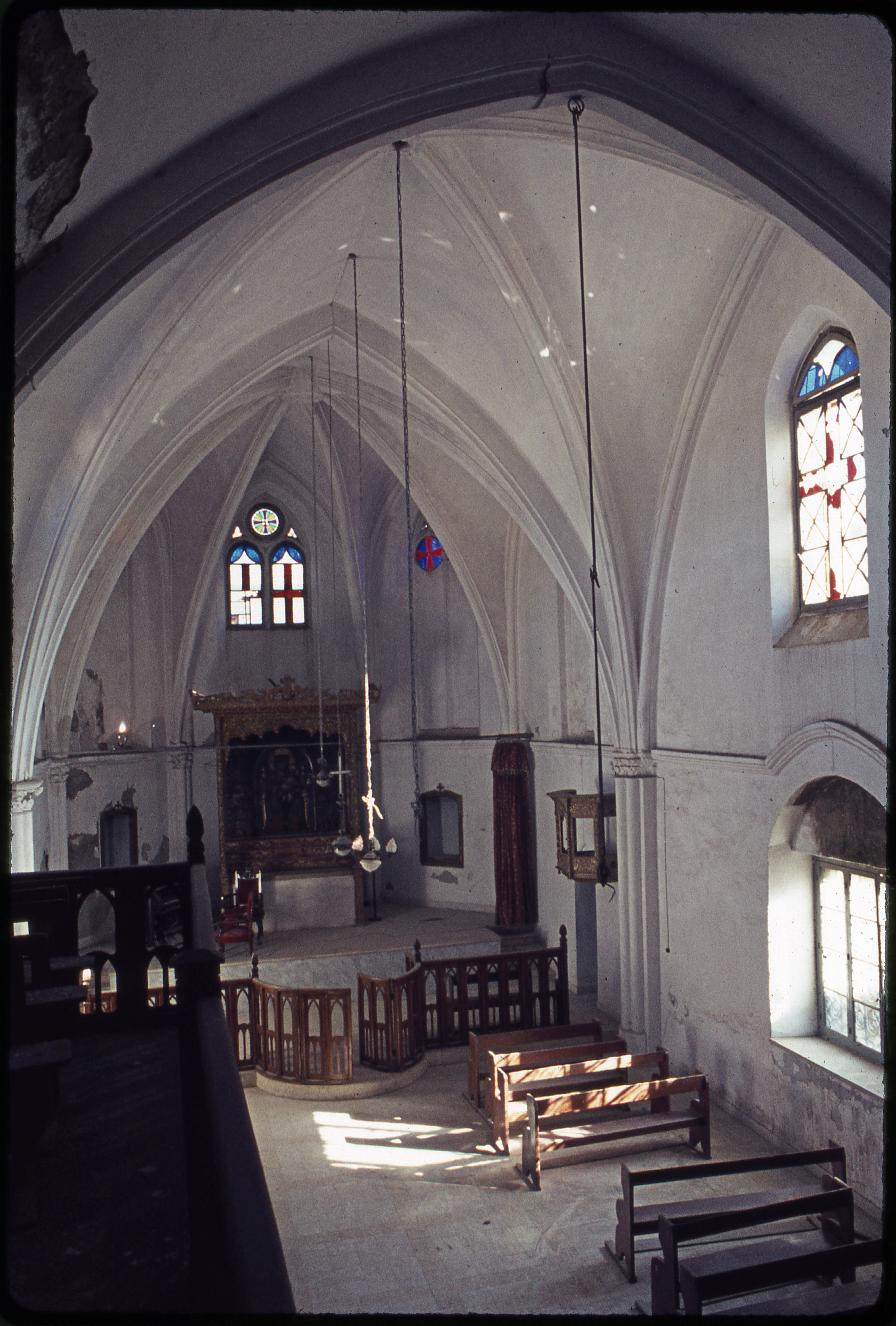 Notre Dame de Tyre, Nicosia, interior looking east, as the monument stood in 1974.